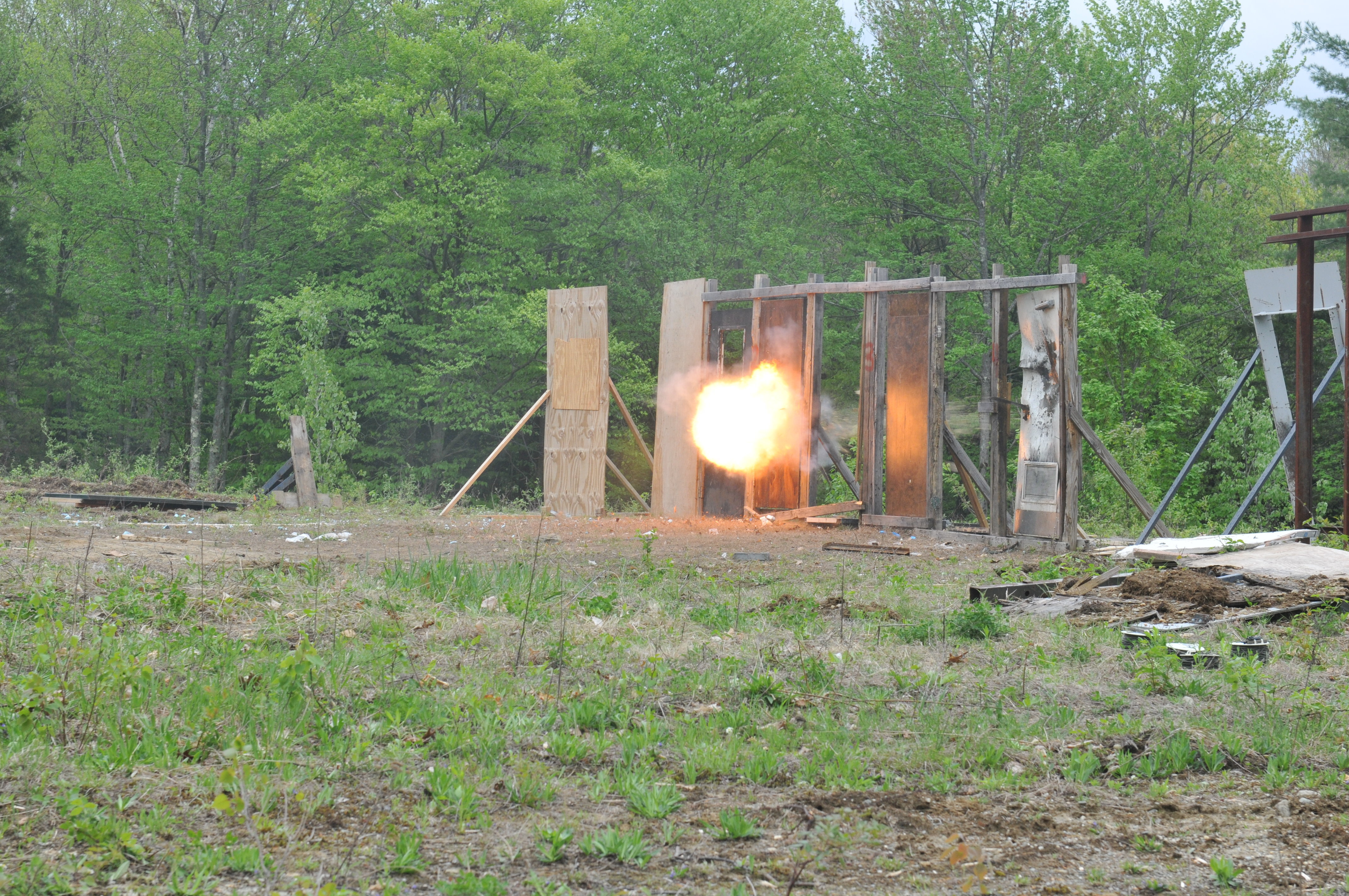 An explosive charge is detonated by National Guardmen at Camp Ethan Allen Training Site, Jericho, Vt., May 11, 2013 as part of their explosive breach training during Infantry Advanced Leaders Course. The course is taught by Vermont National Guardmen of the 124th Regional Training Institute. (U.S. Army National Guard photo by 1st Lt. Jeffrey Rivard)